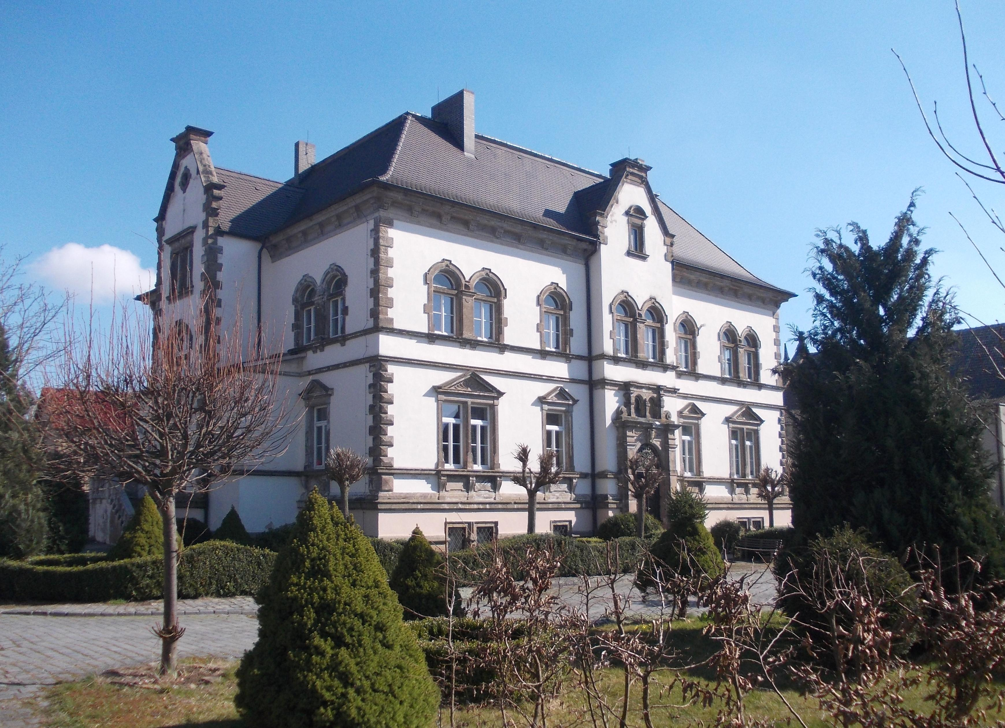 Manor house of Hagengut estate in Döcklitz (Obhausen, district: Saalekreis, Saxony-Anhalt)